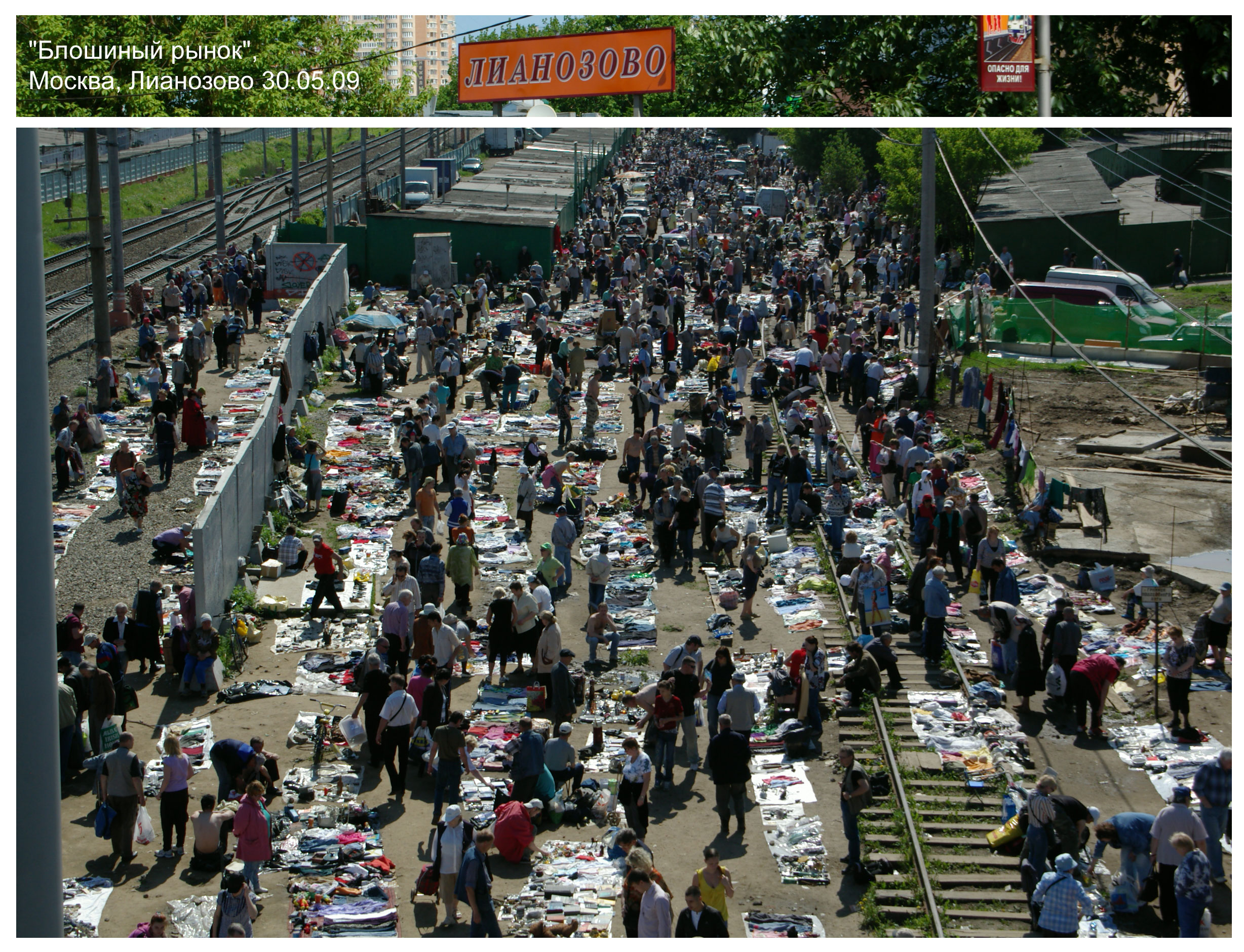 "Flea market" in Мoscow 30.05.2009